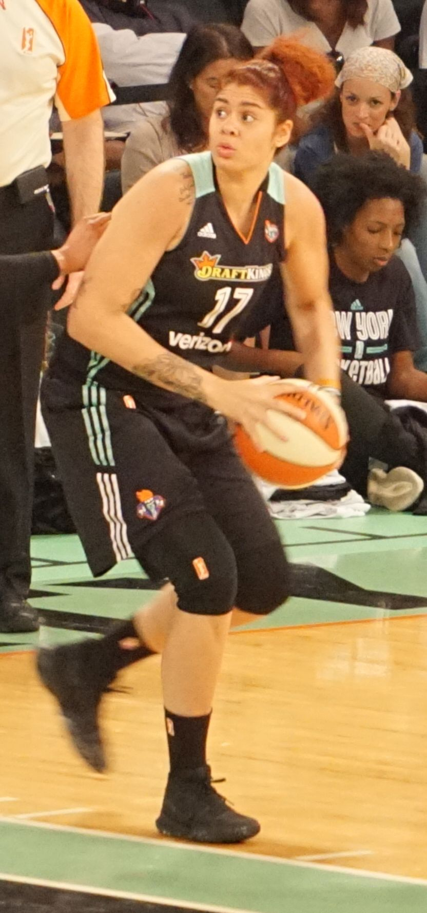 Amanda Zahui B playing in the Liberty Lynx game in MSG